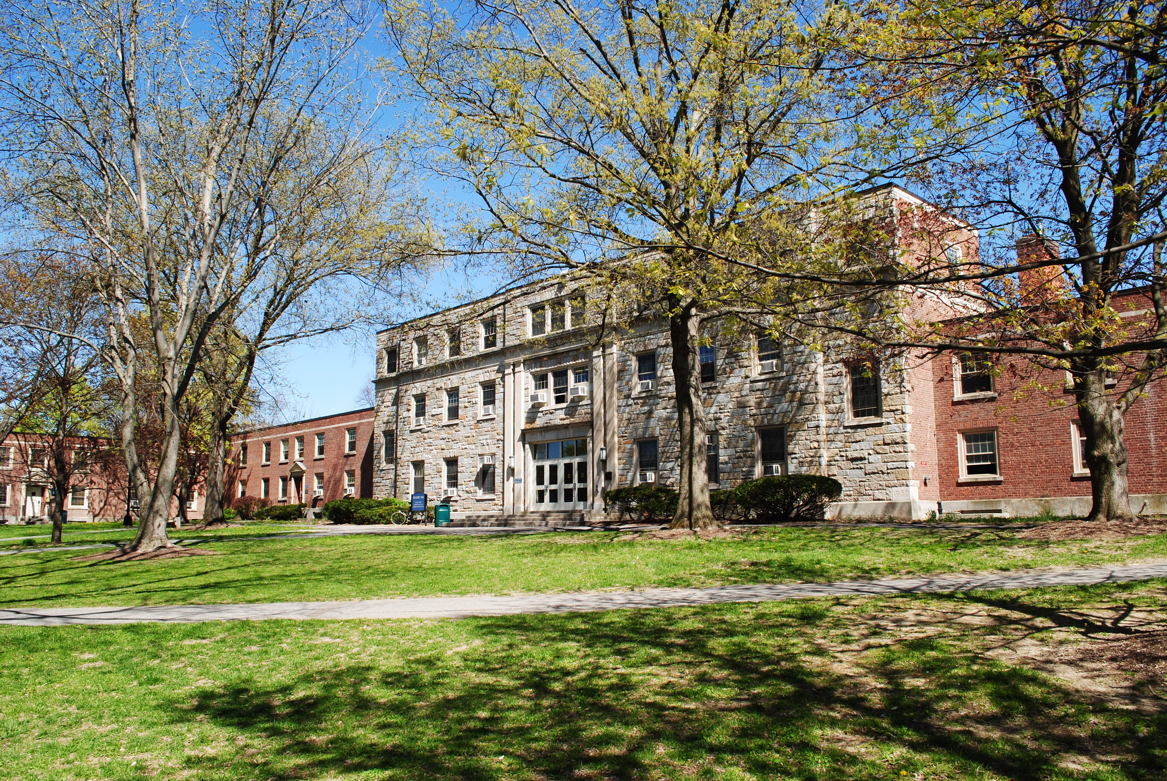 A picture of College Hall at SUNY New Paltz in New Paltz, NY.